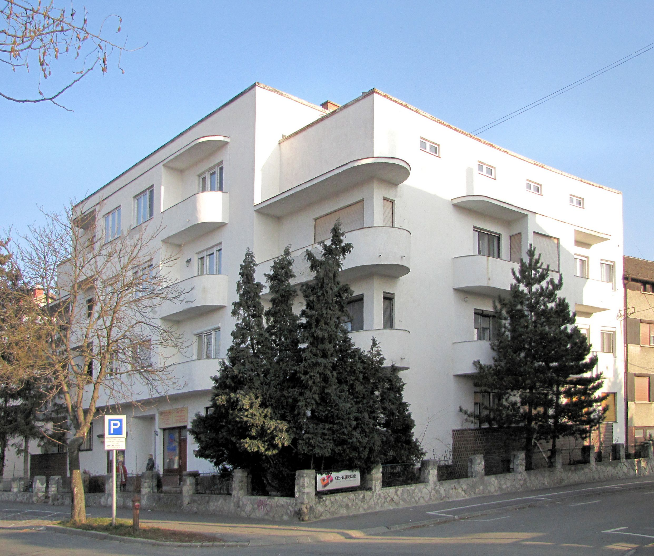 Sopron, Apartment building by Oszkár Winkler, 1936